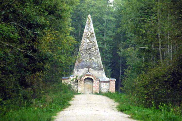 Pyramid in Rapa.